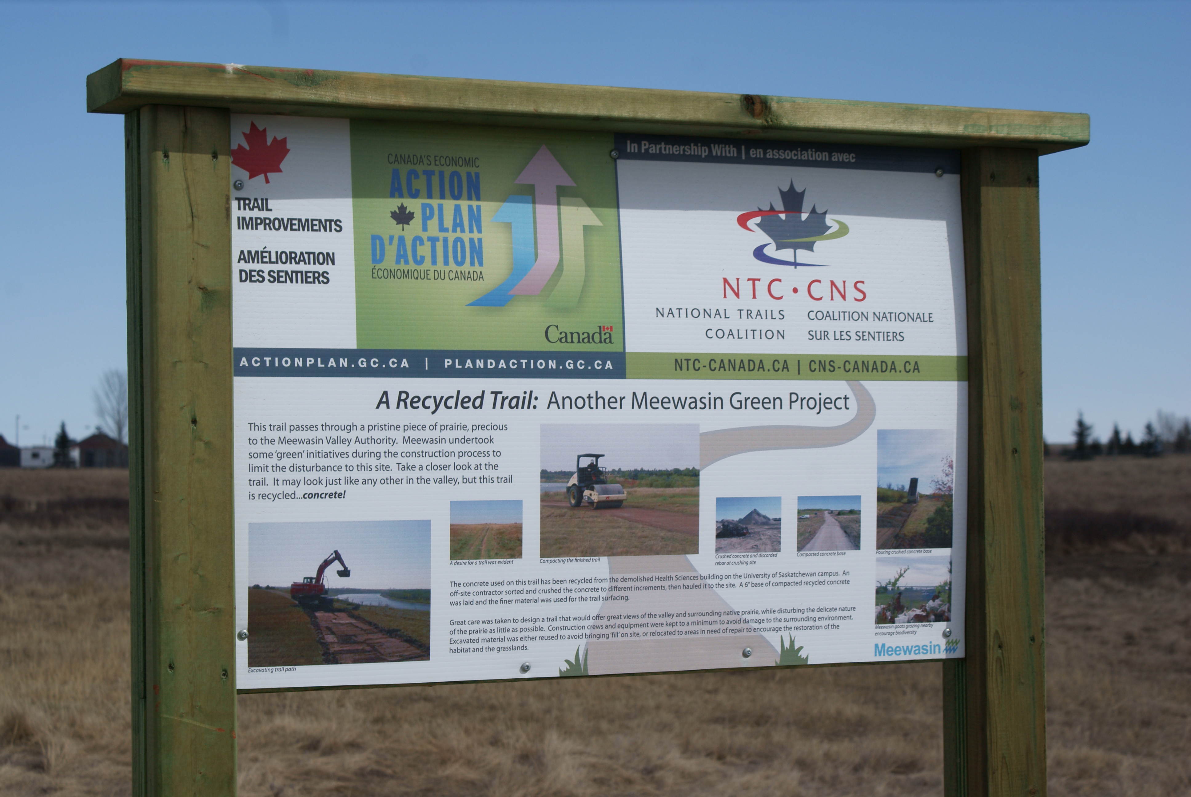 Peturrson's Ravine a part of Meewasin Valley along the South Saskatchewan River in Saskatoon